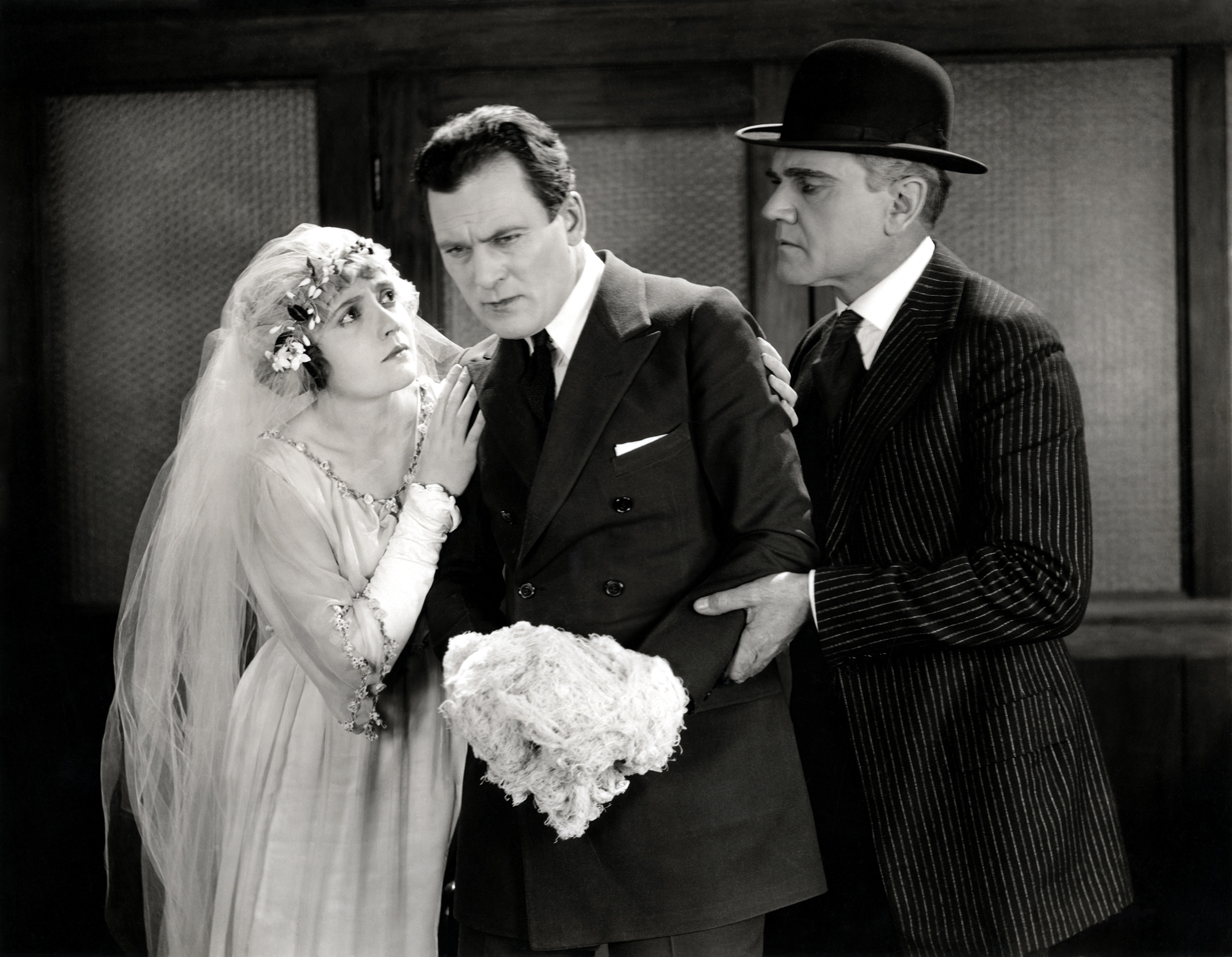 Left to right: Lois Wilson, Thomas Meighan, and George MacQuarrie in The City of Silent Men (1921) - cropped screenshot